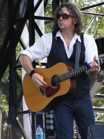 Austin City Limits 2008 - Will Kimbrough with acoustic guitar